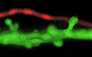 An axon (in red) contacting a dendritic spine (in green). Other spines are also contacting axonal boutons but those are invisible in this confocal microscopy image because they are not transfected